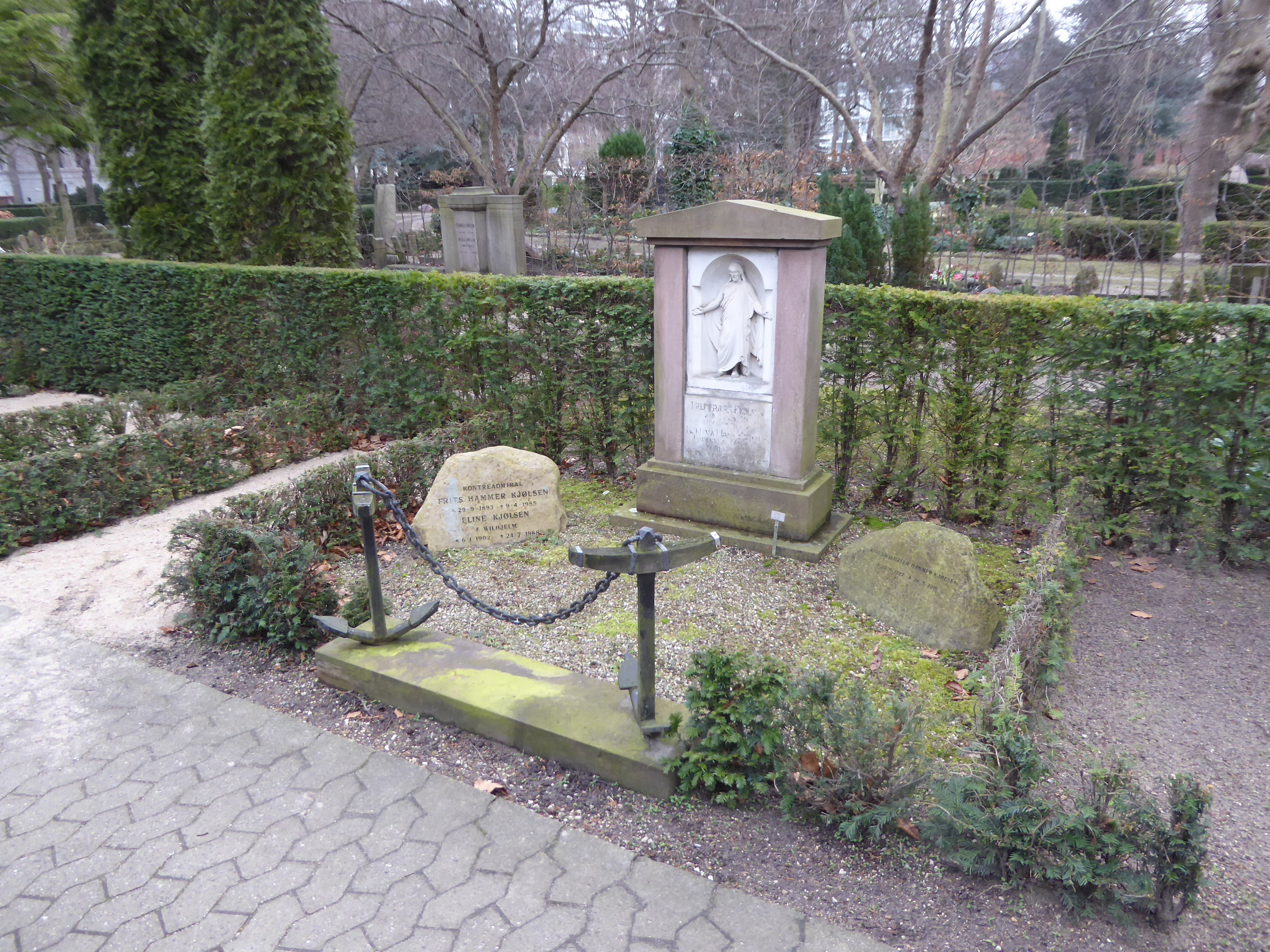 Grave of the counter admiral Frits Hammer Kjølsen (1893-1985) at Holmens Kirkegård in Copenhagen.